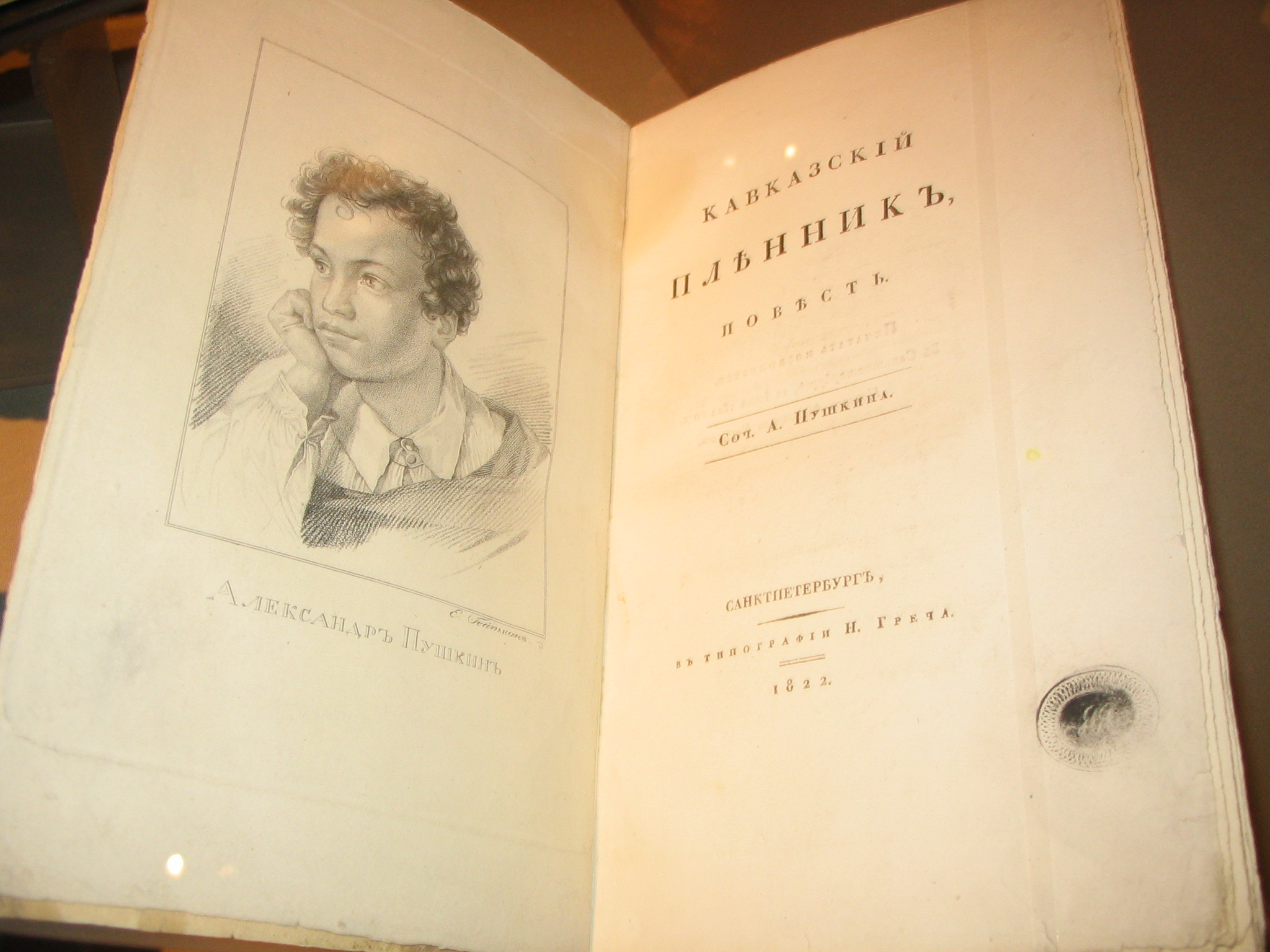 Pushkin Fund